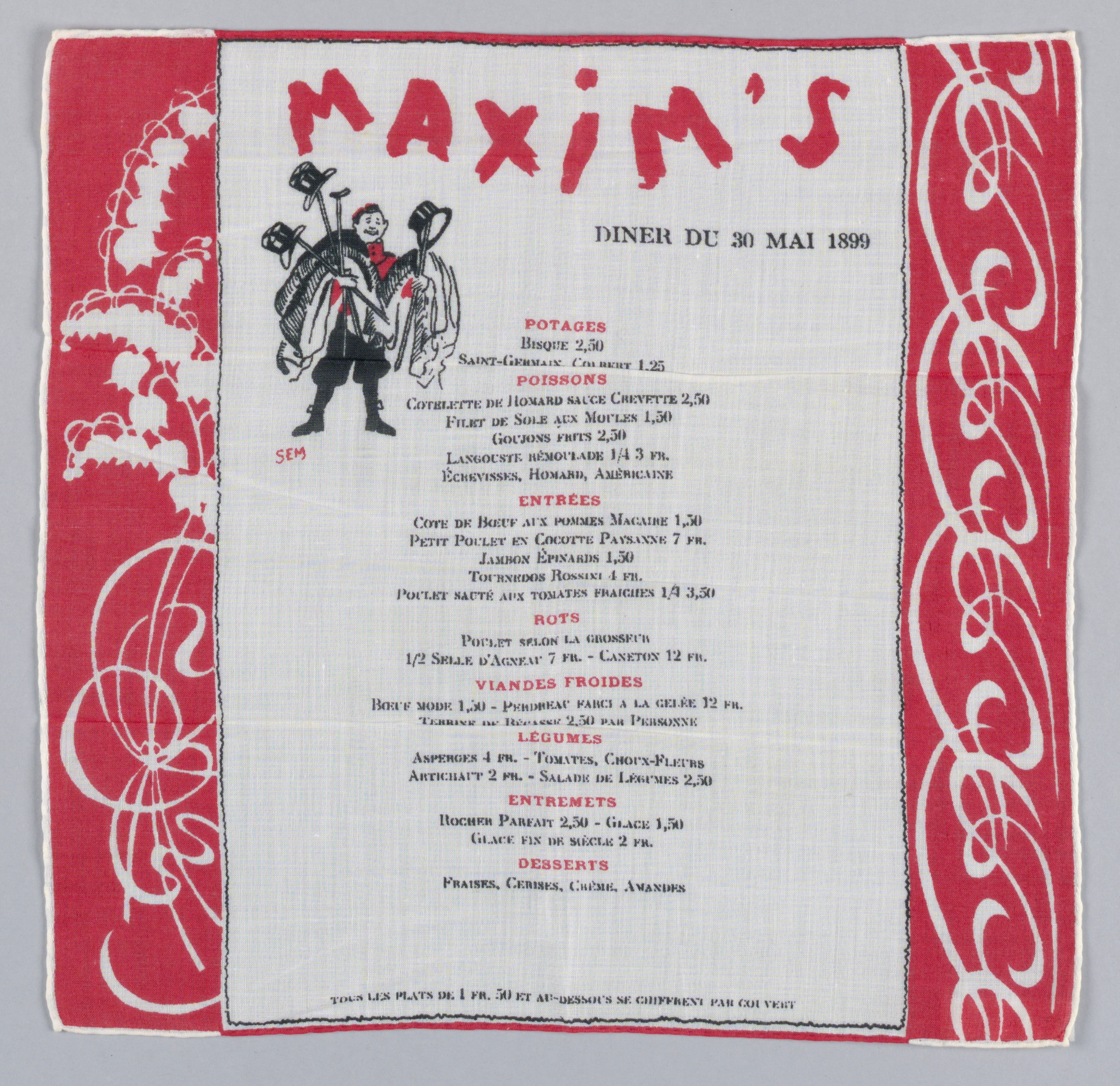 Red border on left and right side "MAXIM'S / DINER DU 30 MAI 1899" menu Colors: red and black on white background